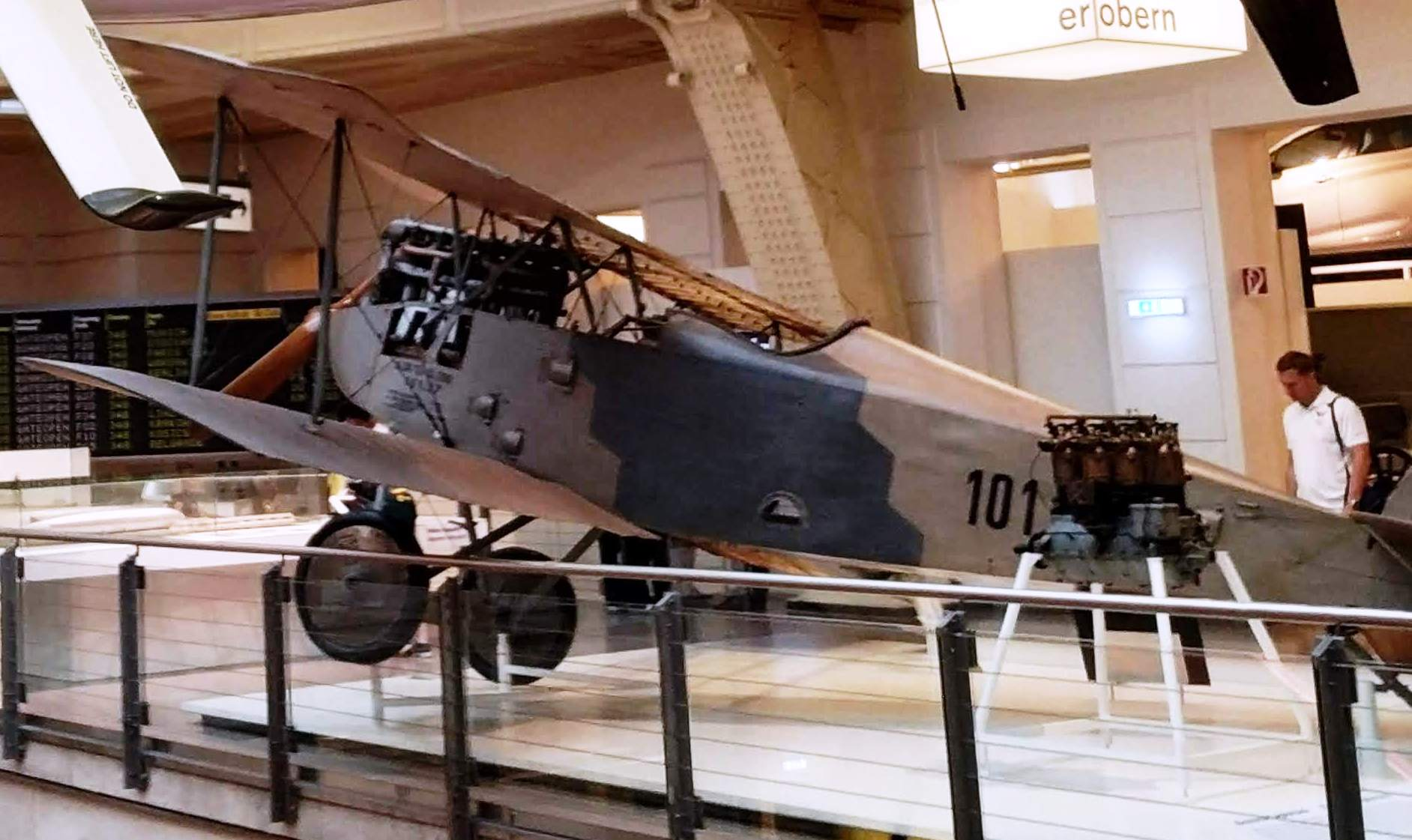 Technical Museum Vienna. Aviatik Berg D 1, fighter aircraft of the Austro-Hungarian empire, designed in 1916.